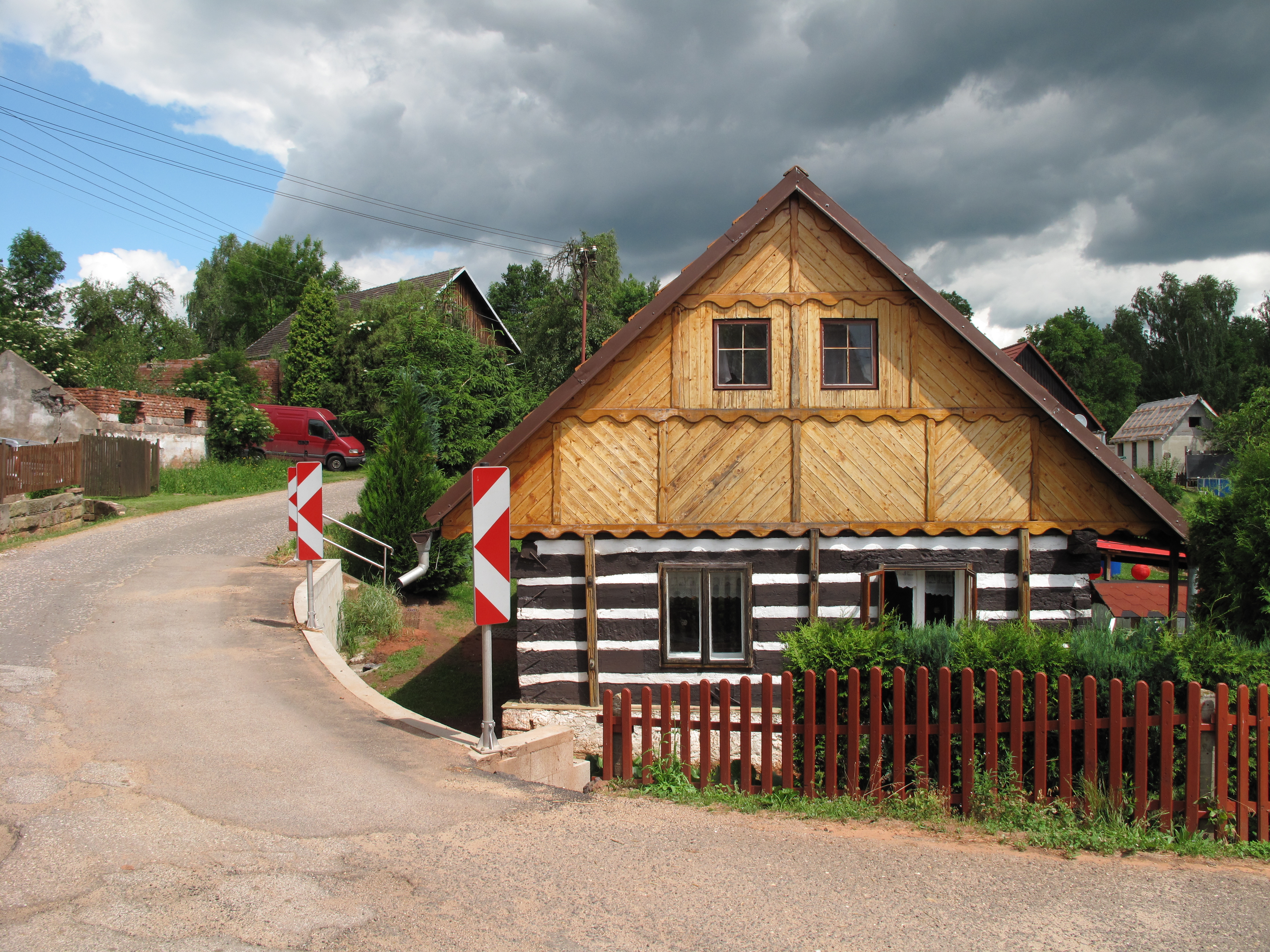 Log cabin in Česká Proseč village, Jičín District, Czech Republic.